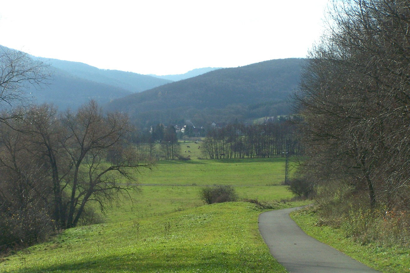 The Emse dell near Winterstein.